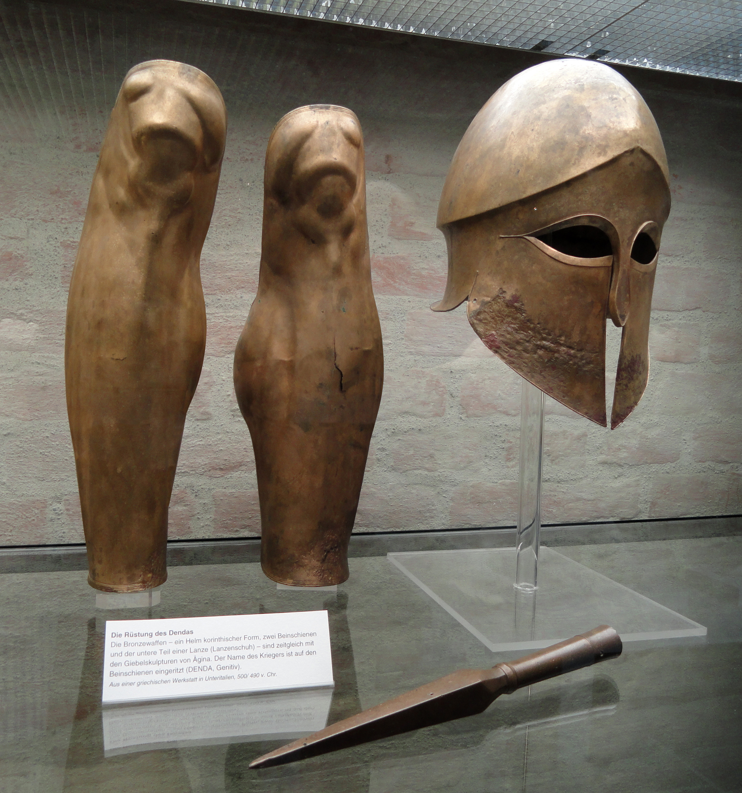 Greaves, Corinthian helmet, and spear tip from the tomb of Denda. The name of the warrior (Denda) is engraved on the left greave. From a Greek workshop in South Italy, 500–490 BC.